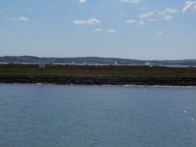 Gull Island. Gull Island from the Beaulieu River looking SE towards Isle of Wight. Gull Island is a nature reserve, the signs state 'no landing'